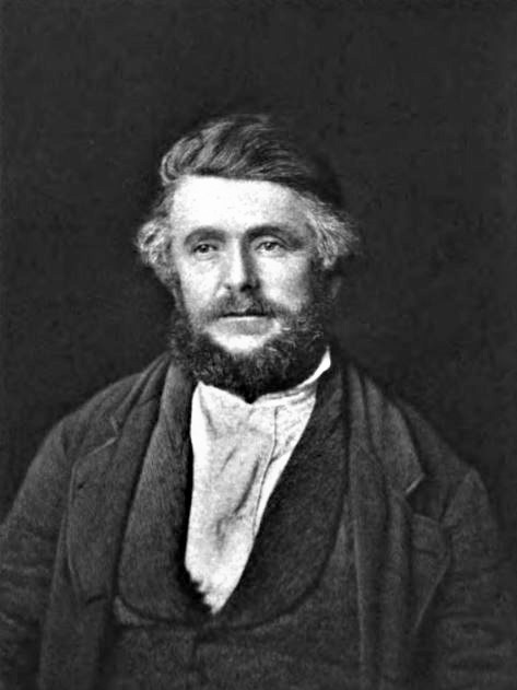 Portrait of pioneer Michael Troutman Simmons, in the Thurston County Historic Preservation Office.